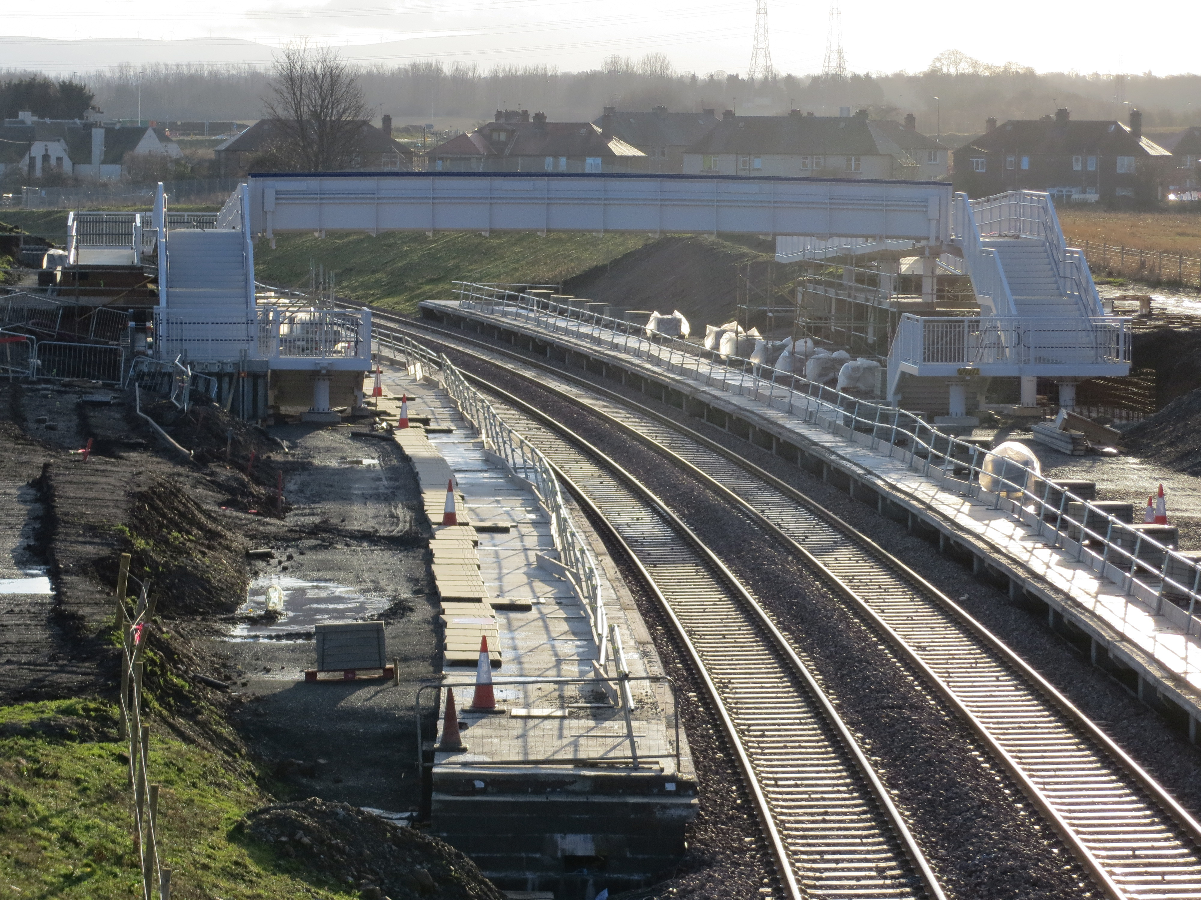 Shawfair Railway Station on the Borders Railway (the name under which the Waverley Line is being opened as far as Tweedbank). The railway is a mixture of single track and lengthy double track sections known as dynamic loops, as long as trains are running within a few minutes of their scheduled time, they'll pass each other somewhere on the double track section, but not necessarily at the site of the station.